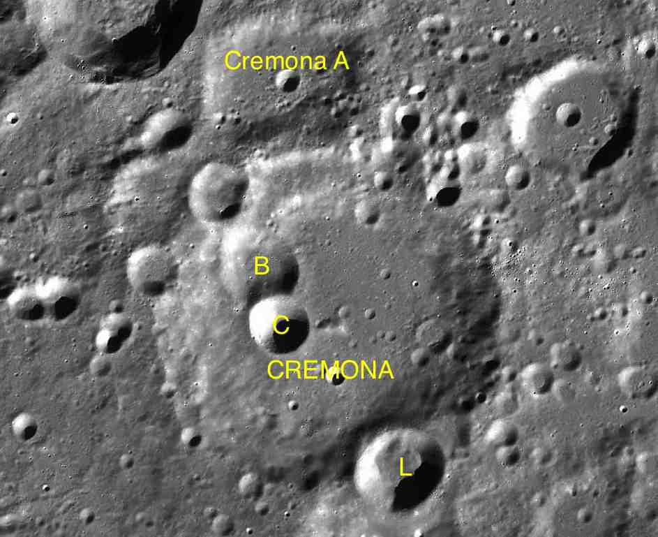 Part of the chart LAC-9 used for the presentation